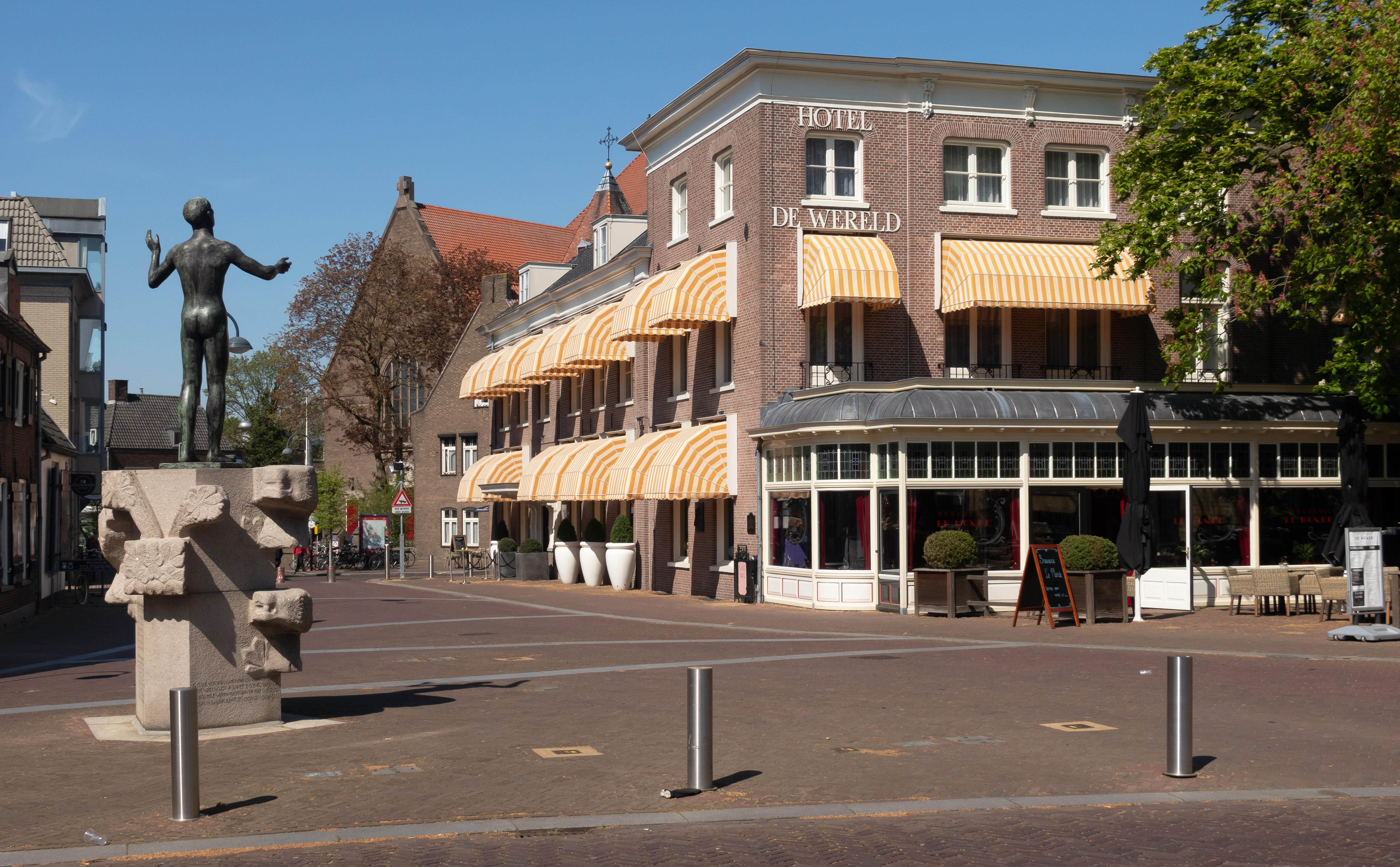 Wageningen, Hotel de Wereld (= the World)